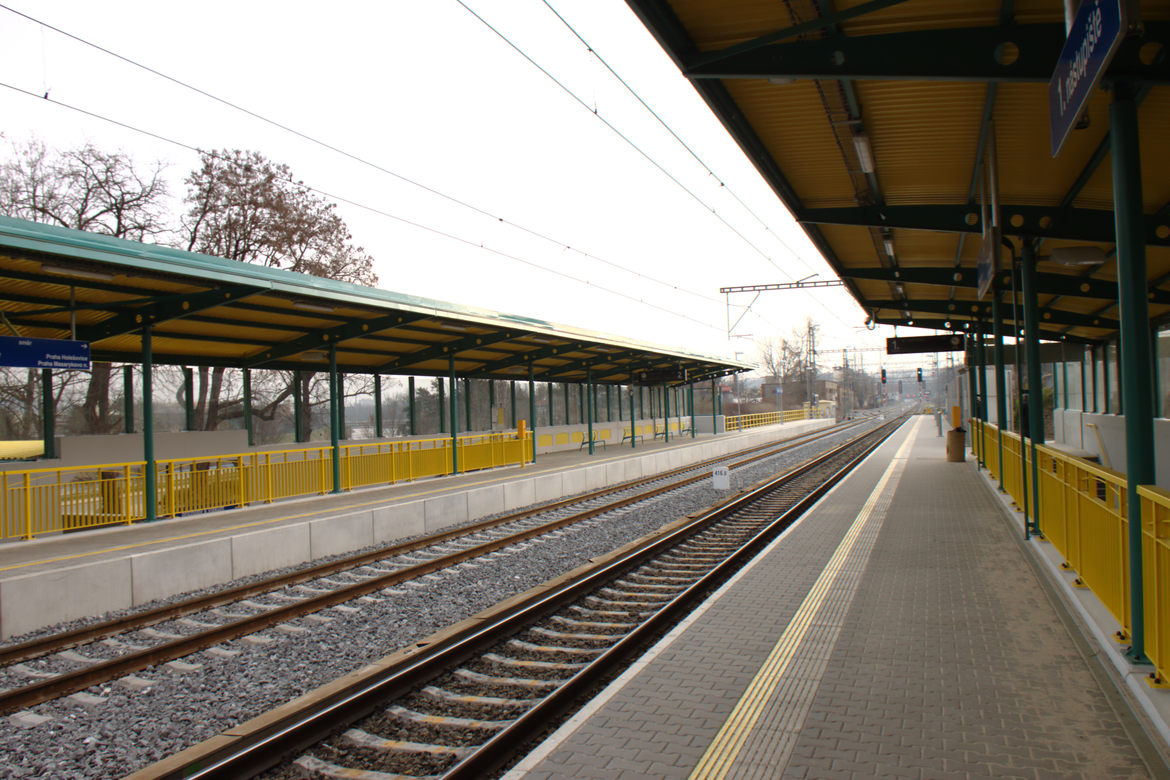 Prague-Podbaba train station, after opening for public